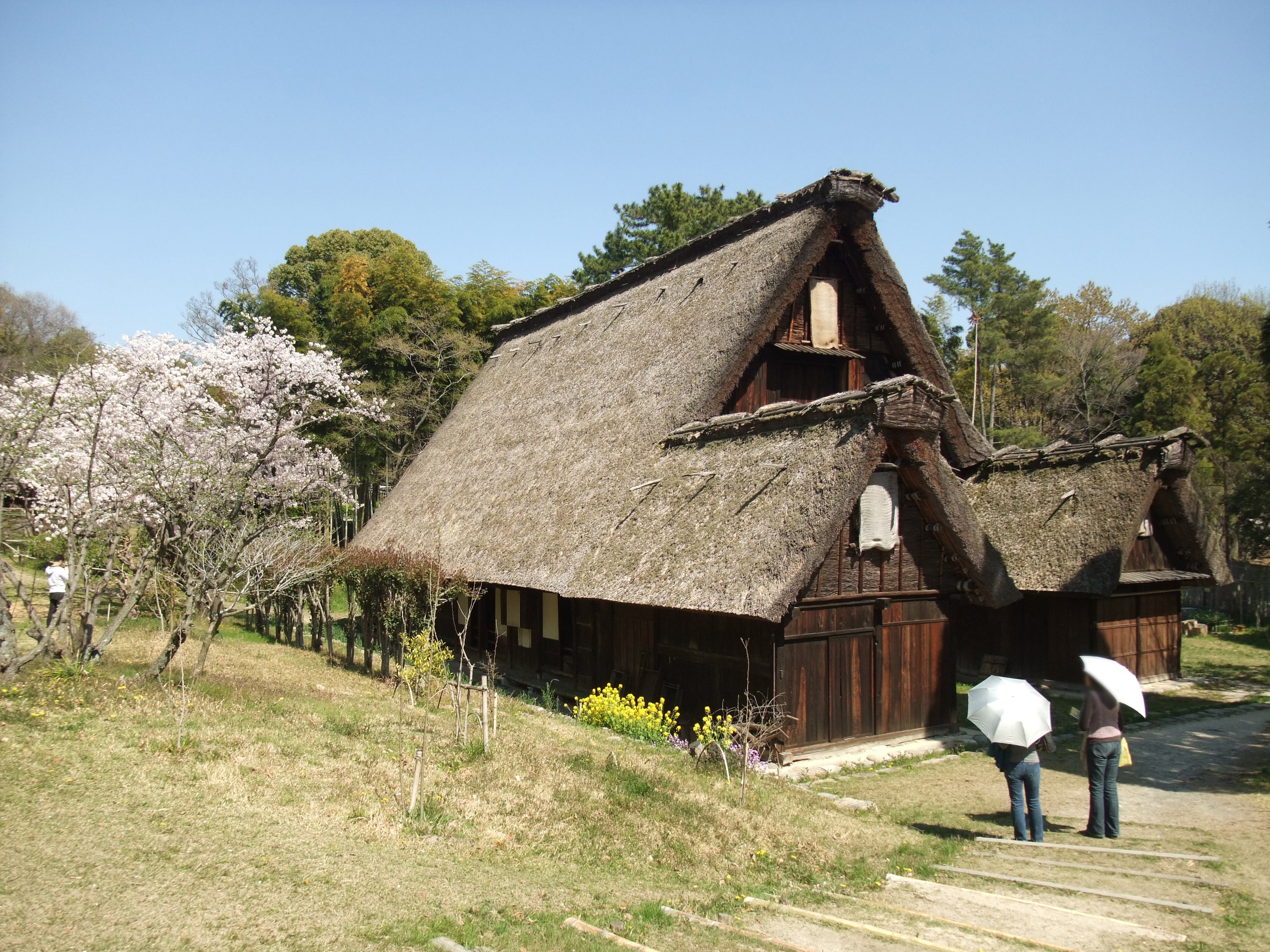 This is a Open-Air Museum of Old Japanese Farm House in Toyonaka City, Osaka Prefecture, Japan.